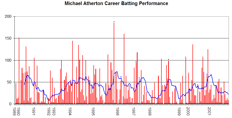 This graph details the Test Match performance of Mike Atherton. It was created by Raven4x4x. The red bars indicate the player's test match innings, while the blue line shows the average of the ten most recent innings at that point. Note that this average cannot be calculated for the first nine innings. The blue dots indicate innings in which Atherton finished not-out. This graph was generated with Microsoft Excel 2002, using data from Cricinfo and .au.